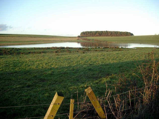 Small loch at Lochlea This water is not marked on the 50,000 mapping, but is on the 25,000. It looks very shallow and could well disappear in a dry summer.